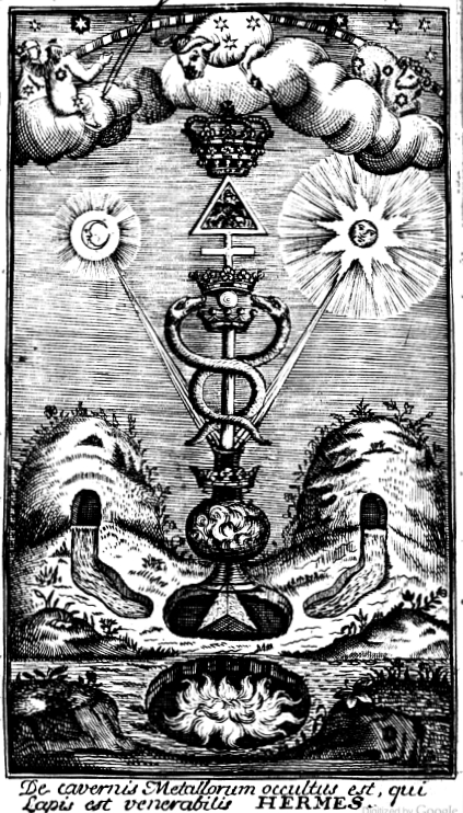 Frontispiece from The Hermetic Triumph